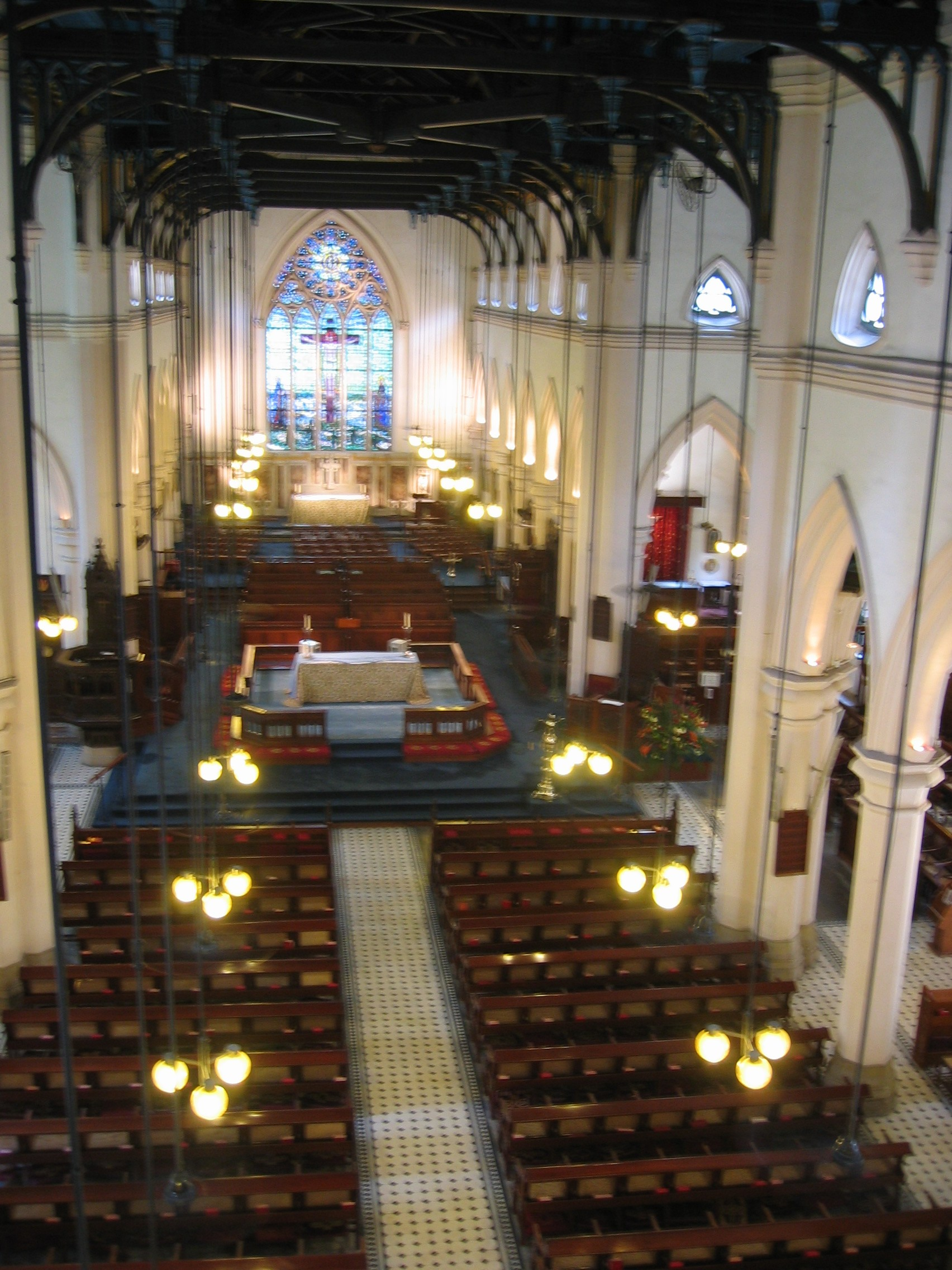 St John Cat. in HKSKH